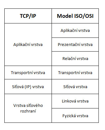 Comparison of TCP/IP and ISO/OSI model